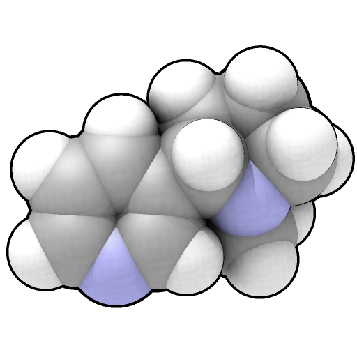 space fill representation of nicotine molecule. Done by me using the QuteMol system.